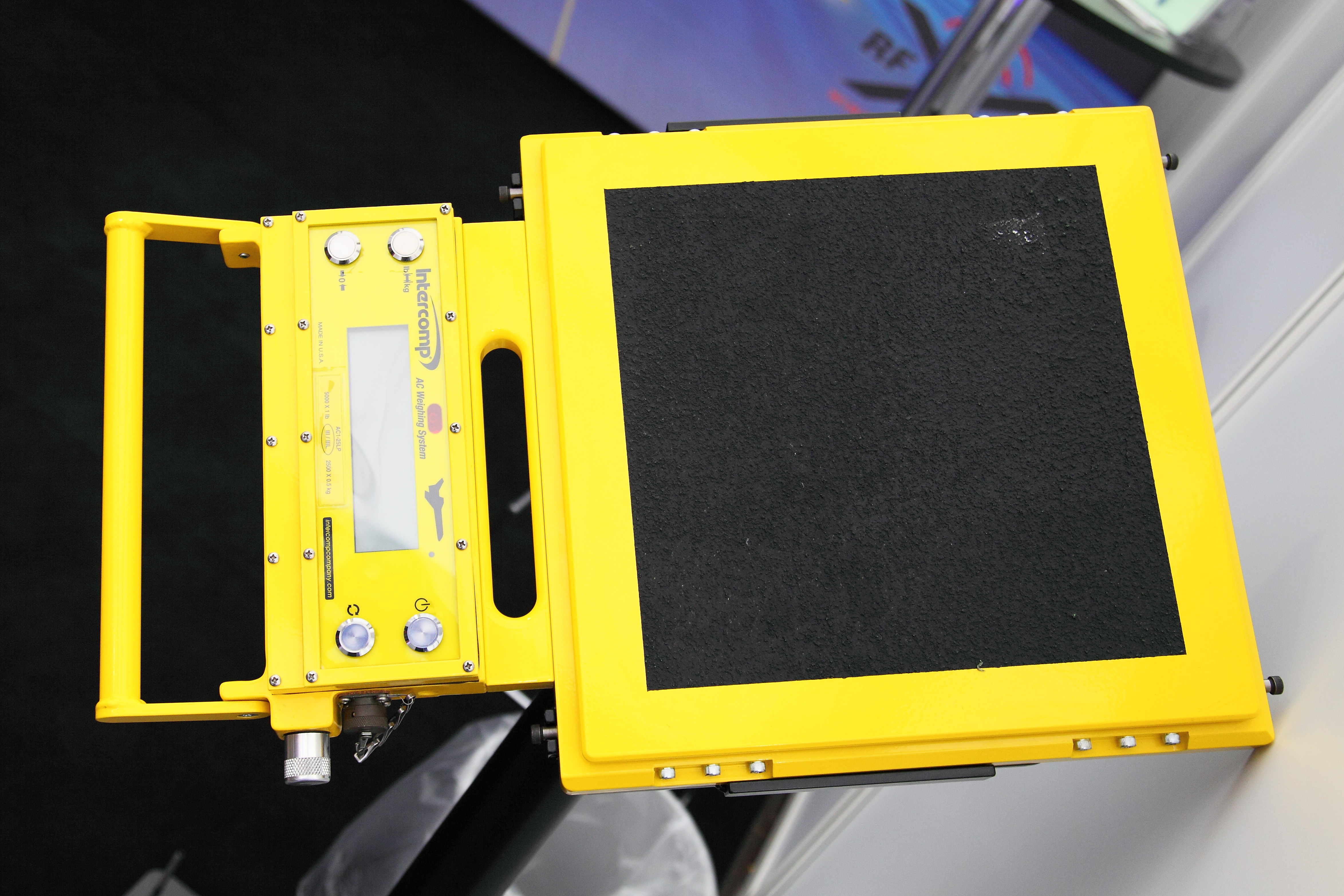 ILA Berlin Air Show 2012 Aircraft weighing systems - Intercomp - AC Weighing System (wireless weighing, platform scales, jack weight kits), made in USA Weighing scale for aircrafts - thin, so that it can go under the tyres